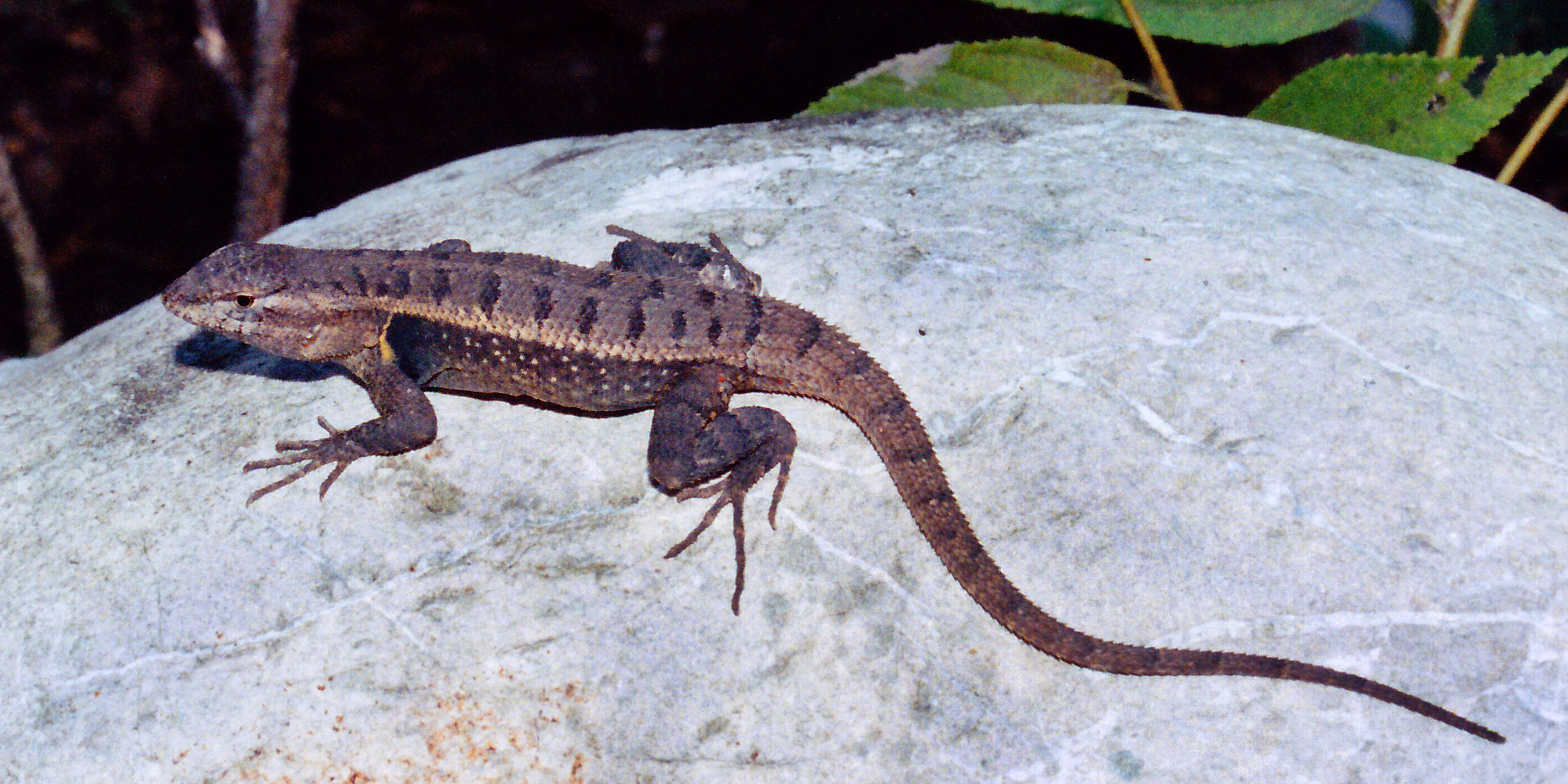 Rose-bellied Lizard (Sceloporus variabilis variabilis), photographed in situ, municipality of Ocampo, Tamaulipas, Mexico. Photographed on 14 October 2005 by William L. Farr. This image was originally photographed with film and later scanned from a print.